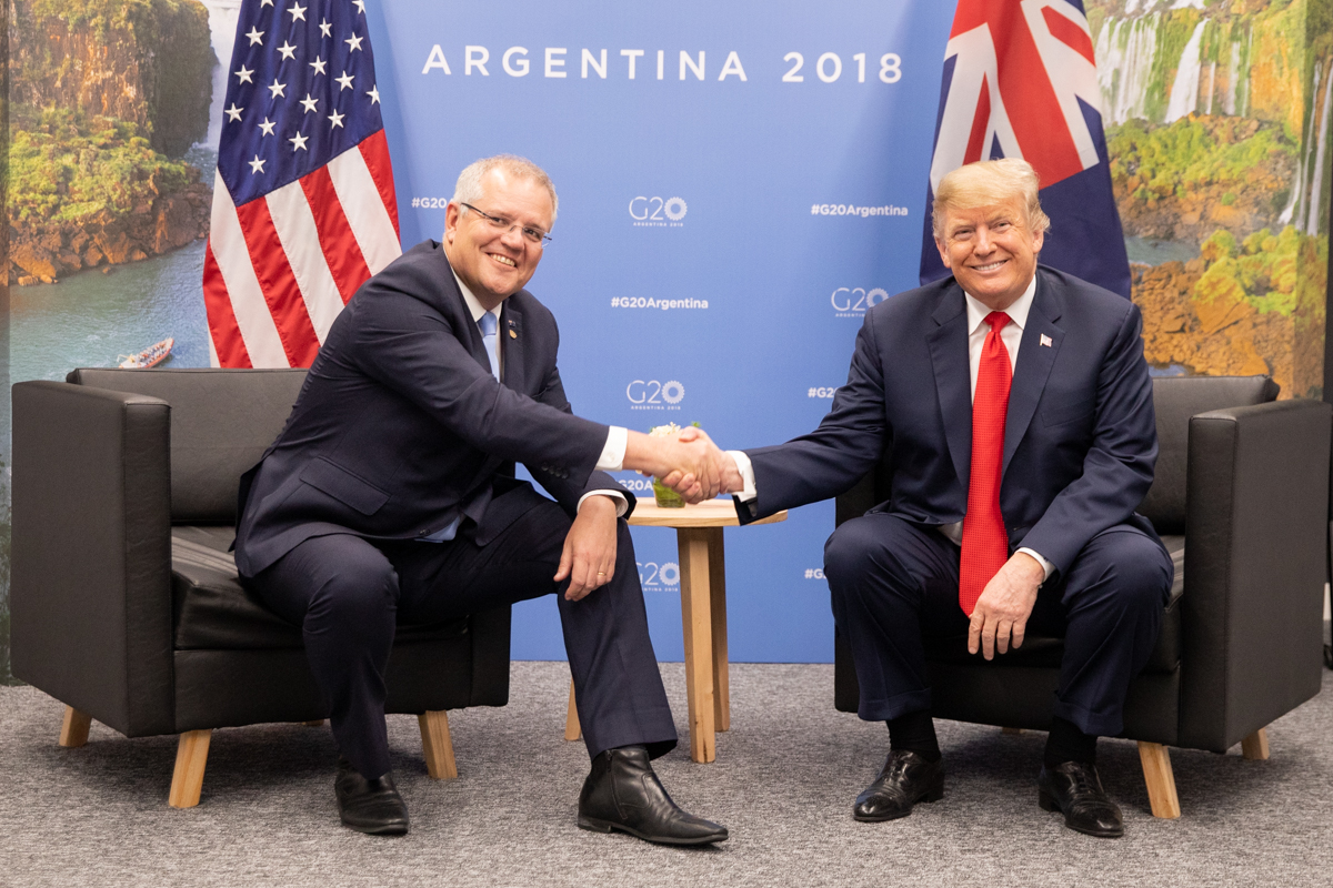 President Donald J. Trump participates in a trilateral meeting Friday, November 30, 2018, with Japanese Prime Minister Shinzo Abe and India Prime Minister Narenda Modi at the G20 Summit in Buenos Aires, Argentina. (Official White House Photo by Shealah Craighead)